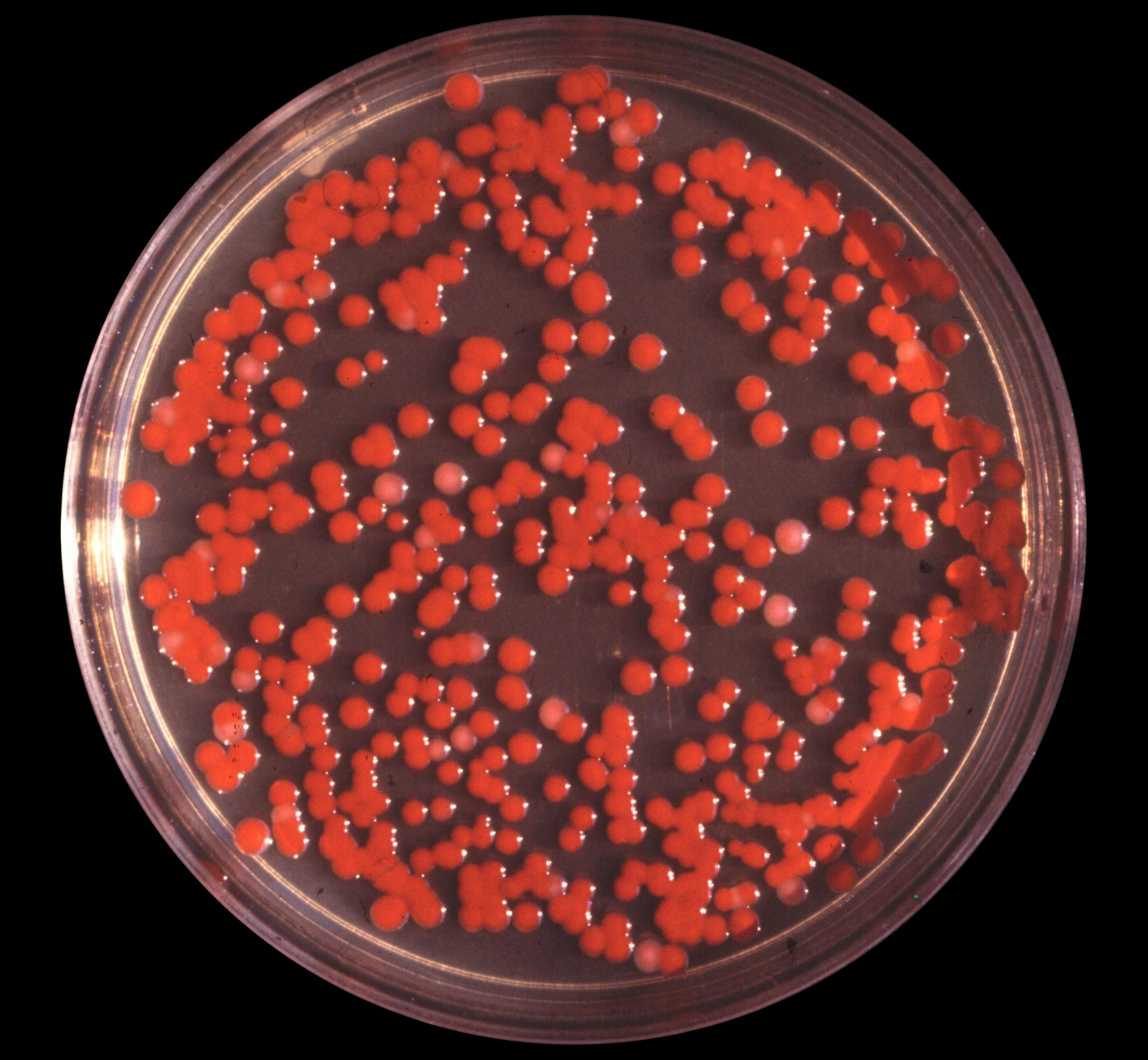 colonies on agar gel